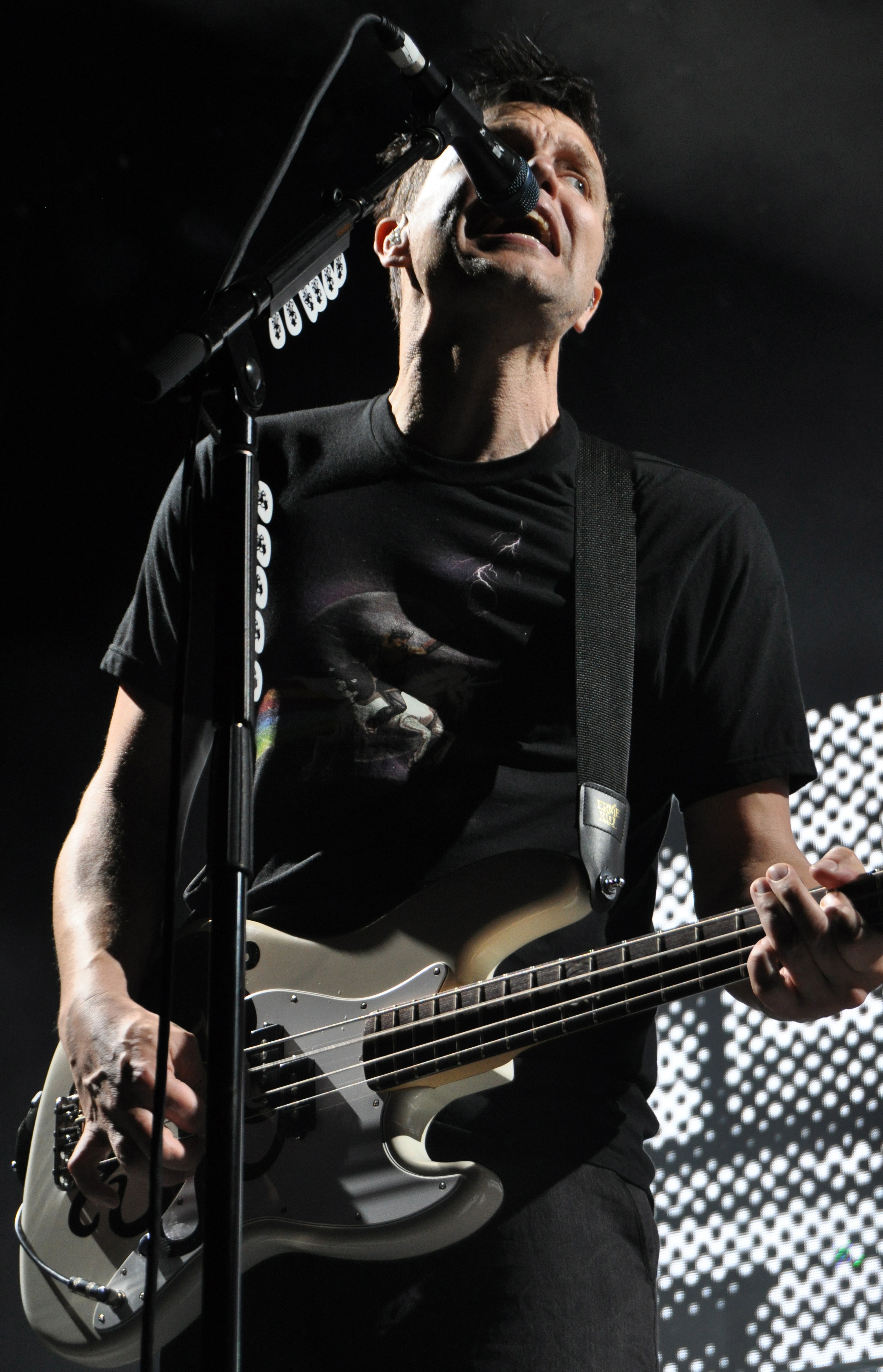 Mark Hoppus live in 2011.